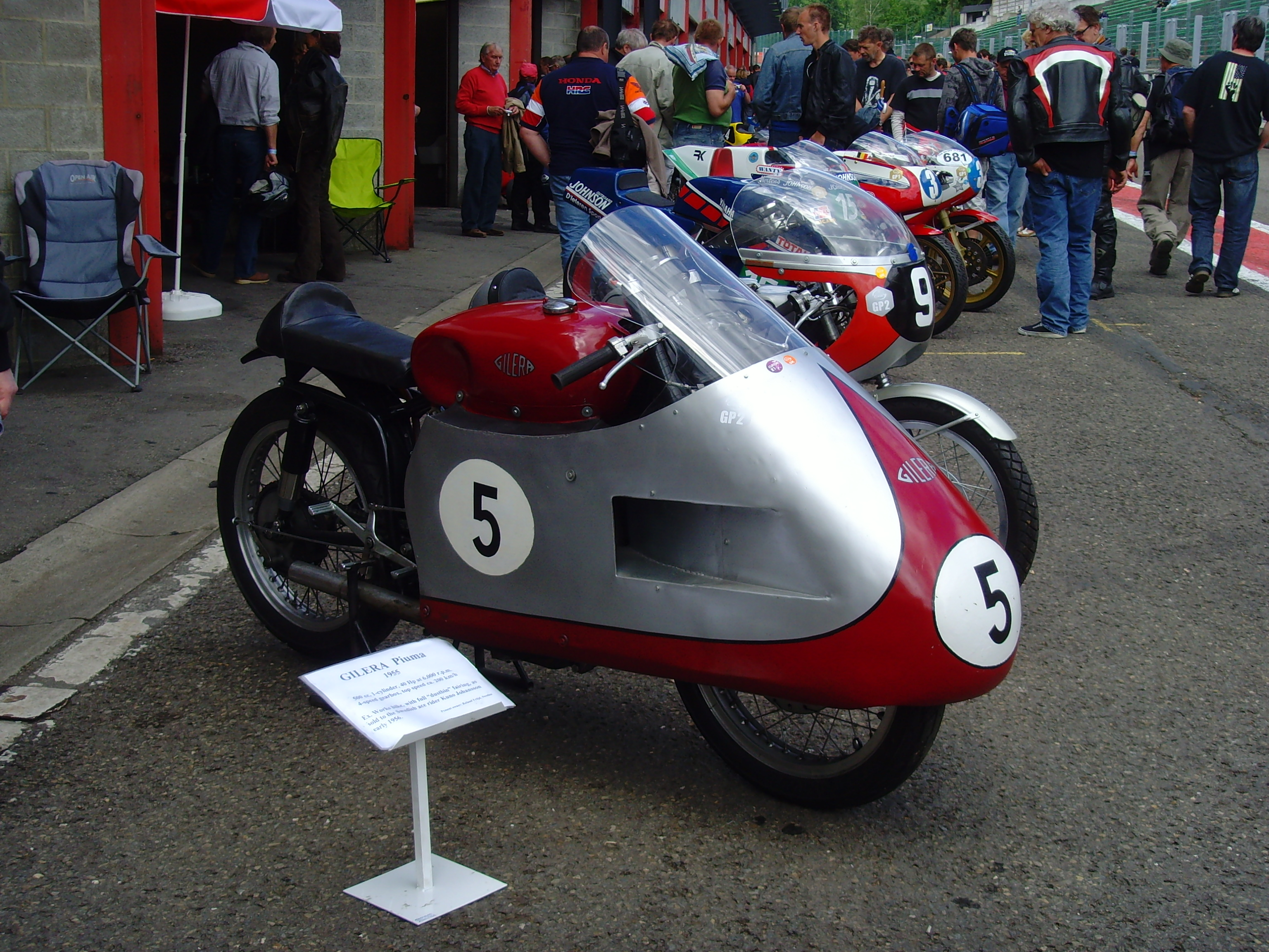 Gilera 500 Saturno Piuma Corsa